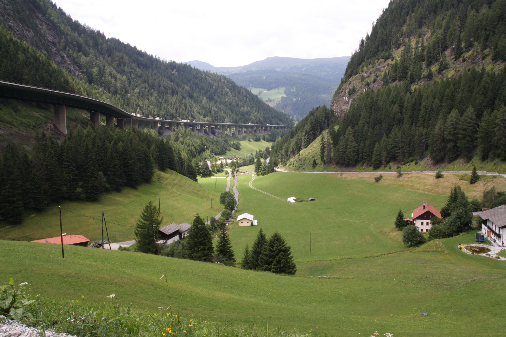 Brenner Pass (German: Brennerpass), north ramp between village "Gries am Brenner" and top of the pass with Austrian motorway A13 (German: A13 aka "Brenner Autobahn"), river "Sill" and Austrian state road B182 (German: Landesstraße B182 aka "Brennerstraße")